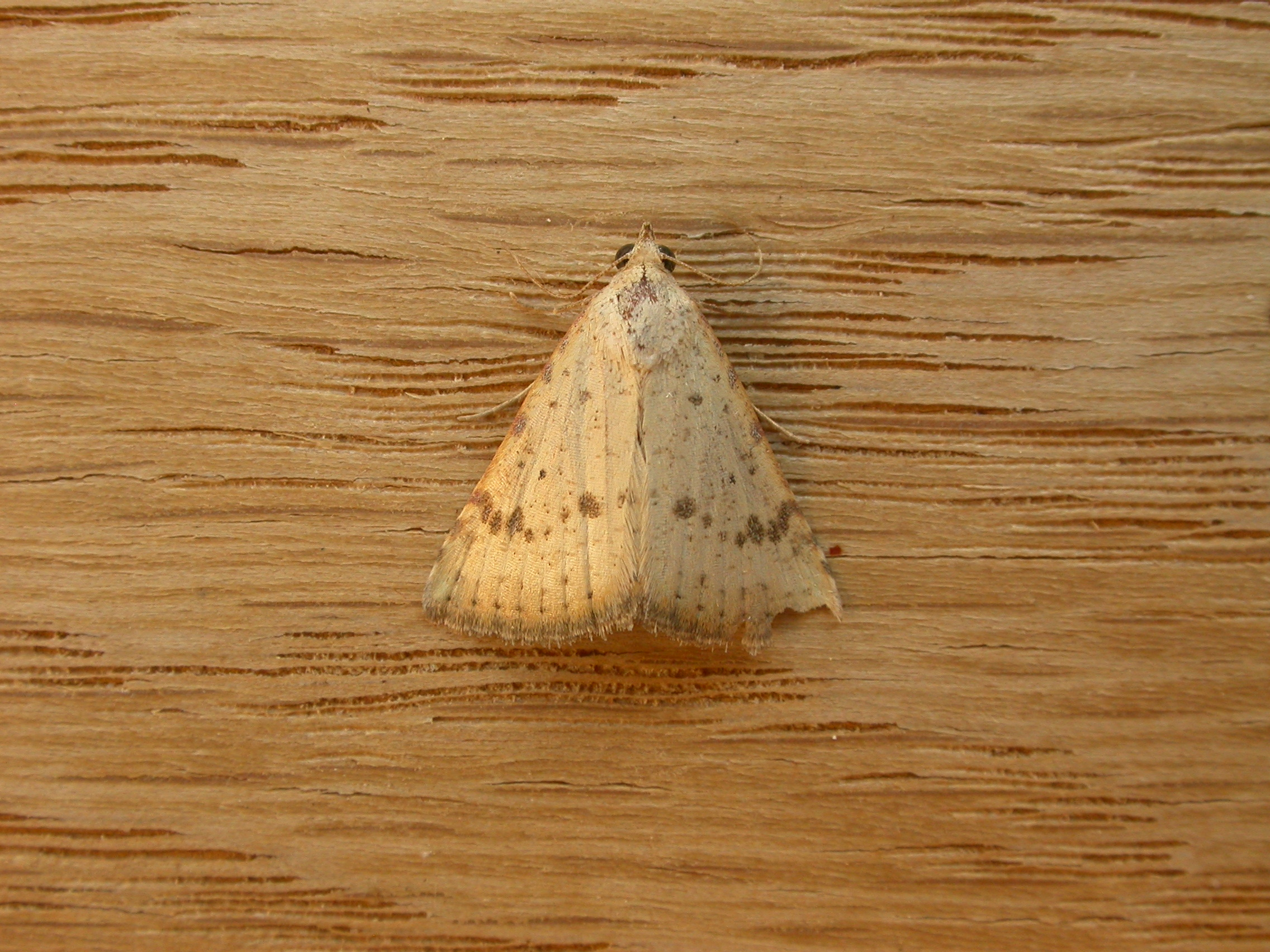 Madope auferens (T.P. Lucas, 1898), to MV light, Aranda, ACT, 15/16 March 2010 Note that the generic placement is considered incorrect - there is no accepted genus for this species at this time.